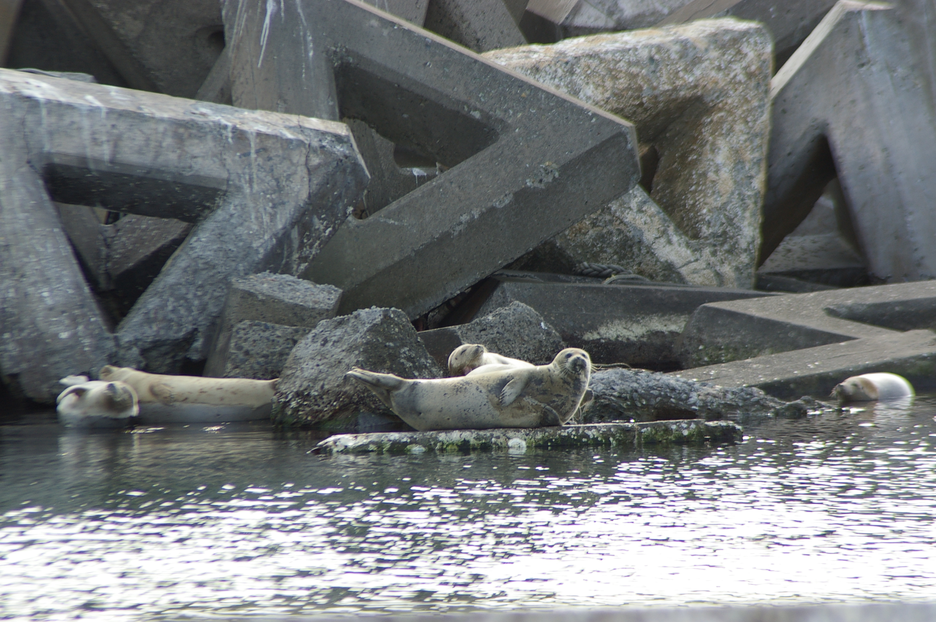 Spotted Seal in Bakkani bay wakanai city hokkaido.